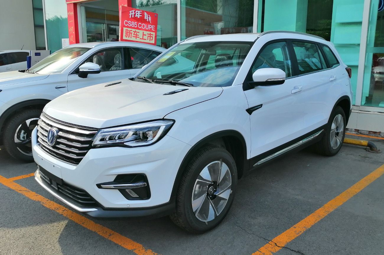 Chang'an CS75 facelift photographed in Chongqing, China.